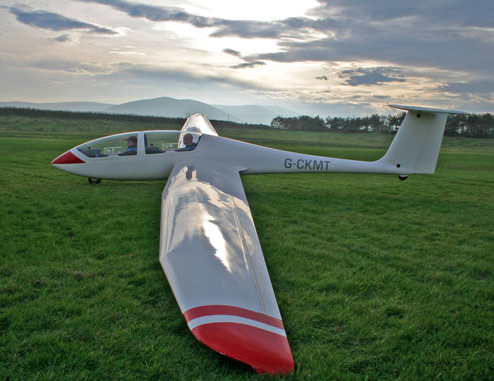 Grob Acro 103 based at Borders Gliding Club, Milfield, Northumberland. Two-seat trainer, fully aerobatic.